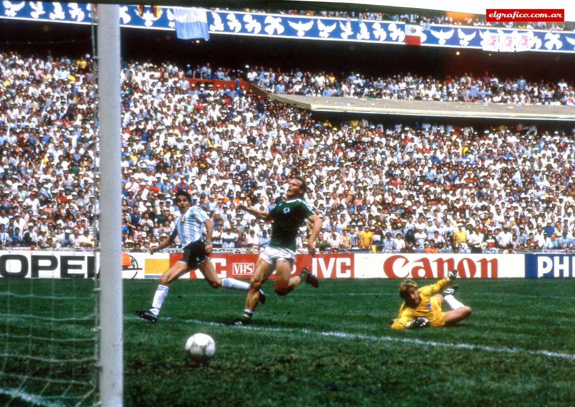 Jorge Burruchaga scoring the third goal of Argentina.